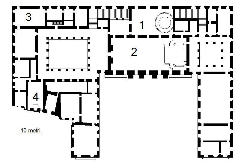 Map of noble floor of Doge's Palace in Genoa